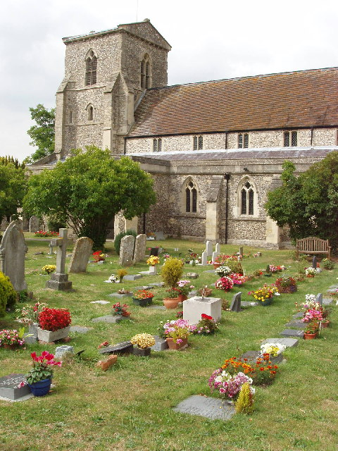 Nave and west tower of St Andrew's parish church, Chinnor, Oxfordshire, seen from the southeast